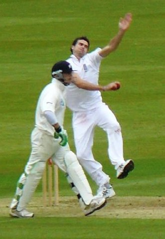 Jimmy Anderson bowls against New Zealand during New Zealand's tour of England in 2008